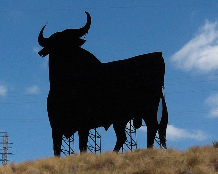 Toro de Osborne banner, Alicante, Spain